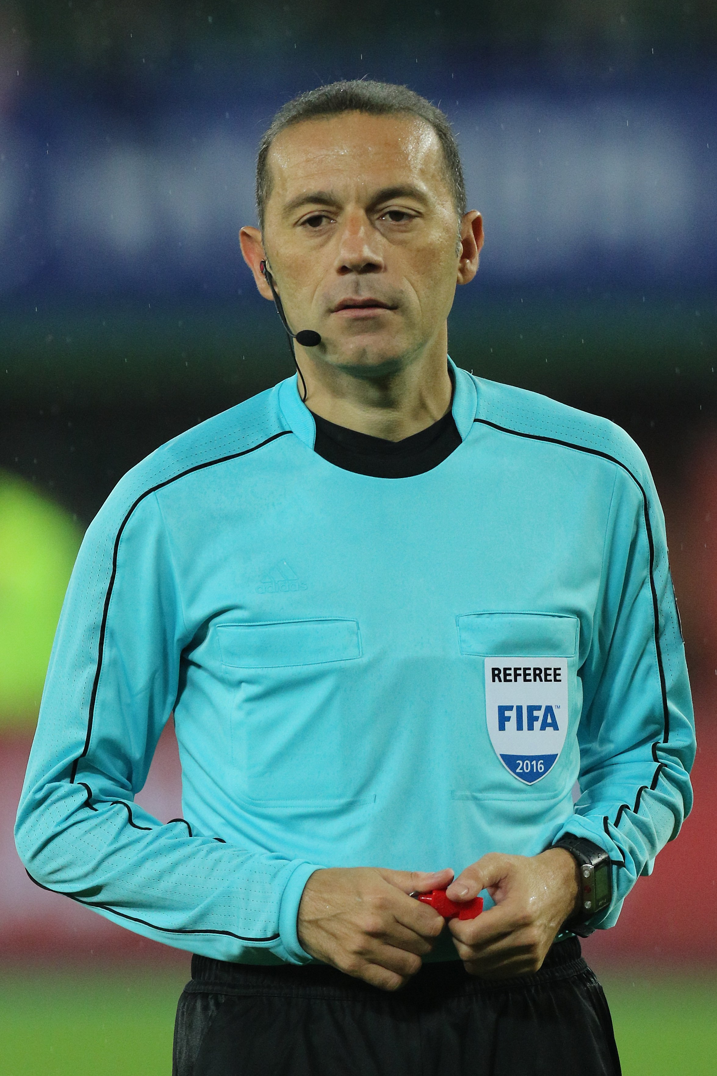 2018 FIFA World Cup qualification – UEFA Group D) – Austria (red shirts) vs. Wales (white shirts) 2-2 (1-2) – 2016-10-06 in Vienna, Ernst-Happel-Stadion – The photo shows referee Cüneyt Çakir (Turkey).